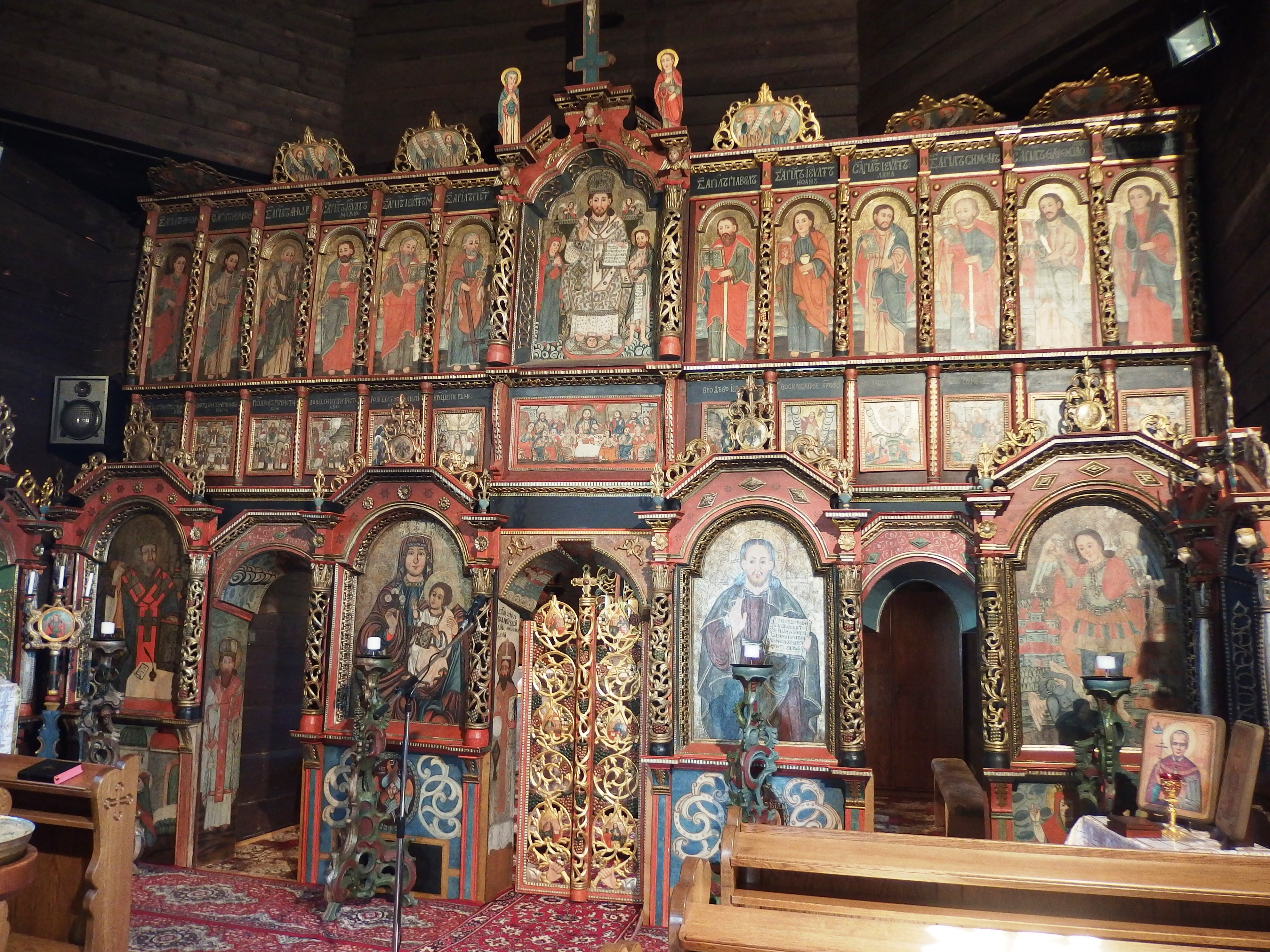 Ladomirová, Svidník District, Slovakia. Temple of Saint Michael.